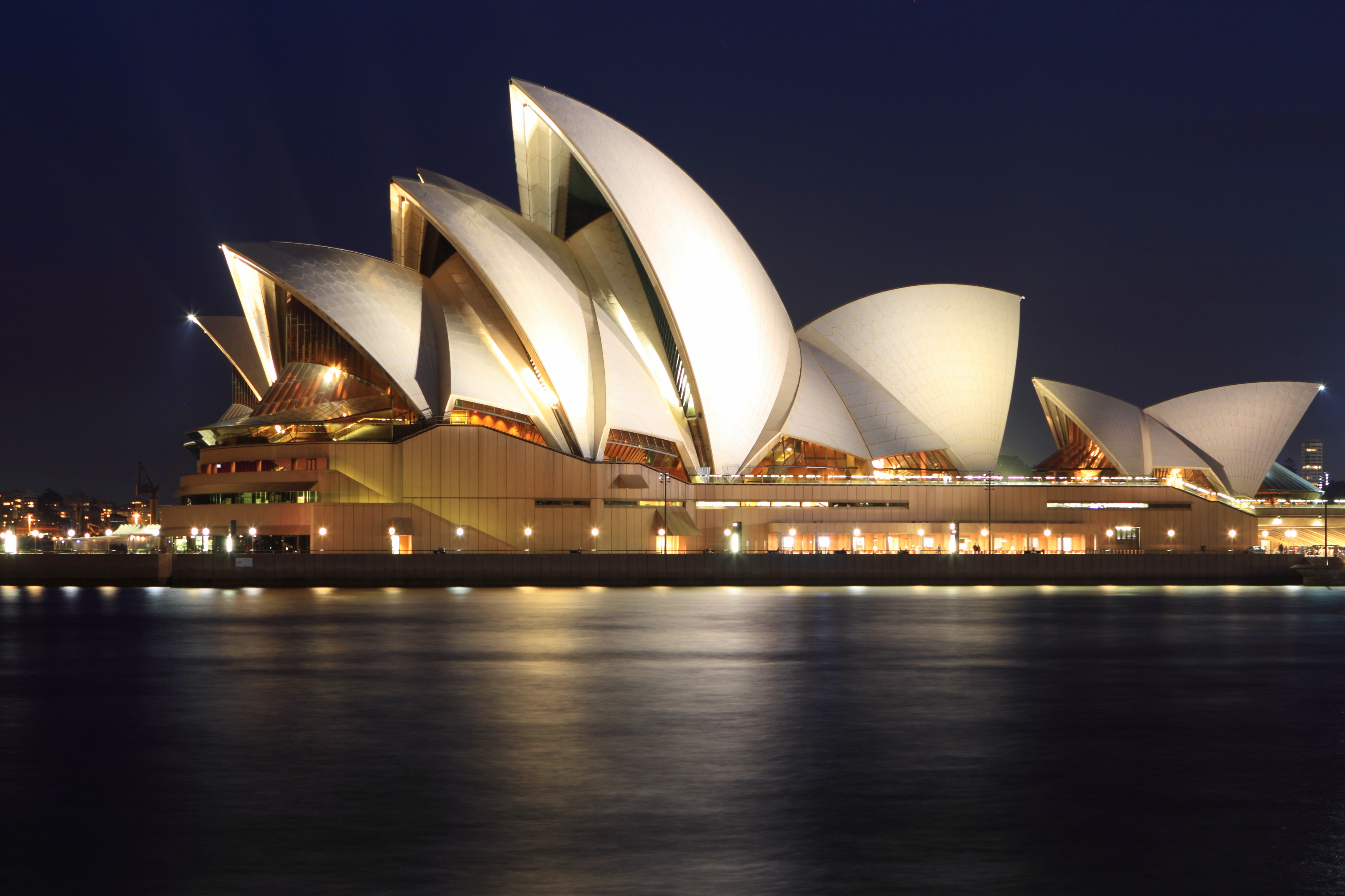 театр